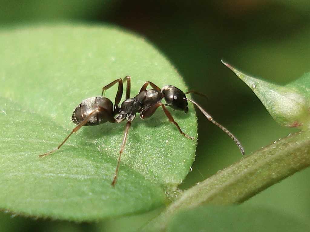 Formica fusca